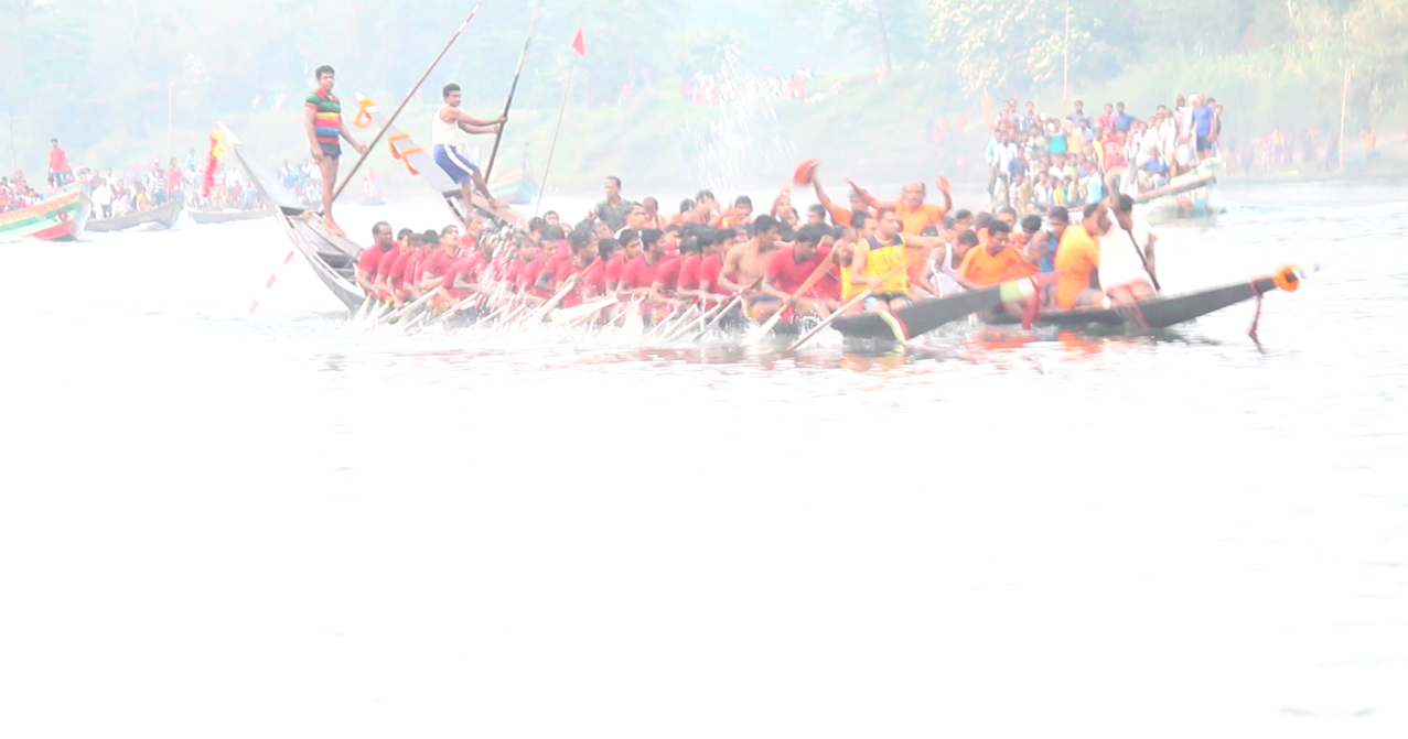 কালি গঙ্গা নদীতে নৌকা বাইচ